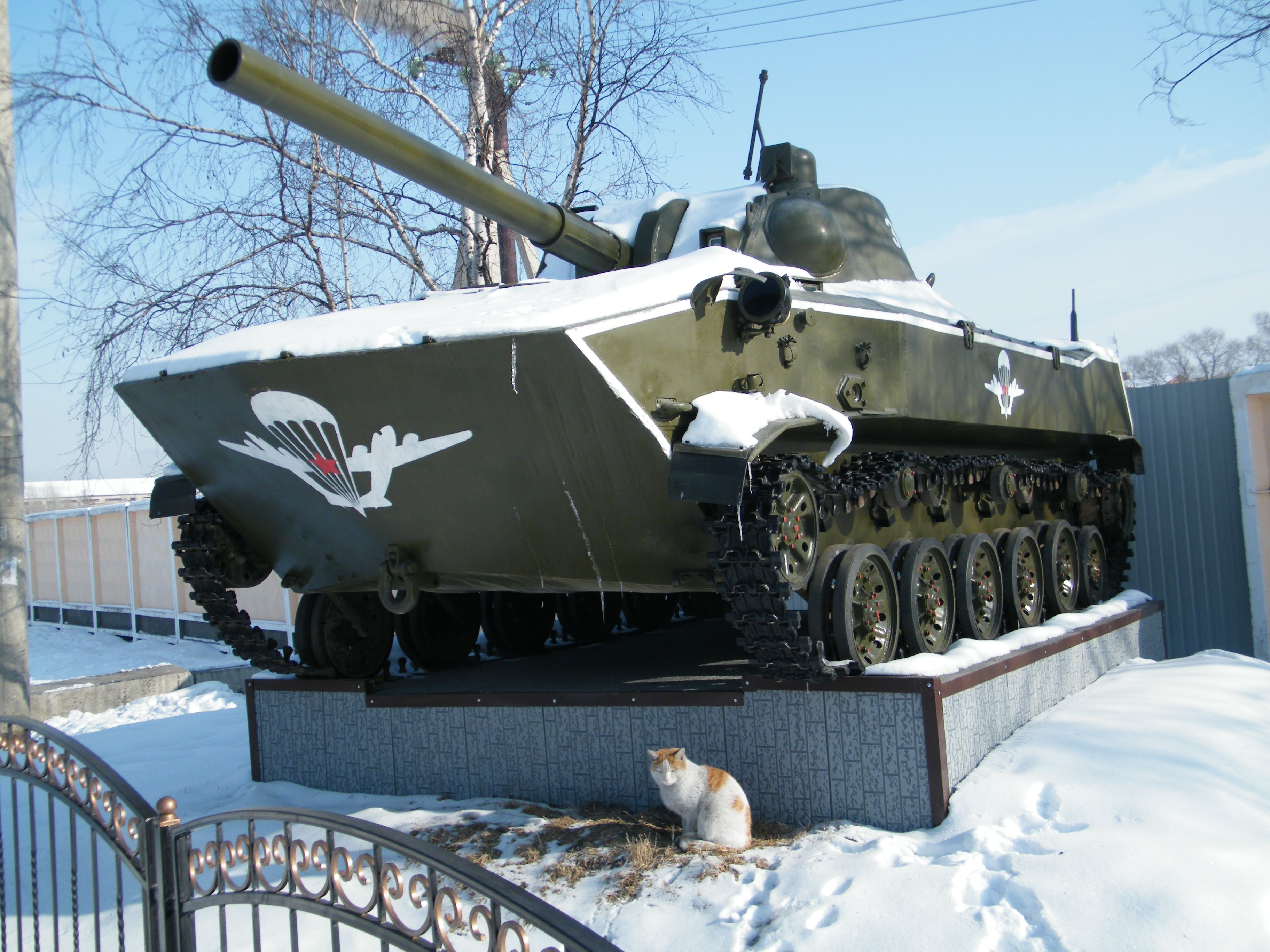 Котэ охраняет танк возле Уссурийского суворовского училища.